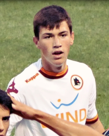 Alessio Romagnoli playing for AS Roma against Liverpool FC